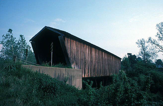 KEEPVILLE/SHERMAN/HARRINGTON CB OVER W. BRANCH CONNEAUT CREEK; 1873 MKING; 72’